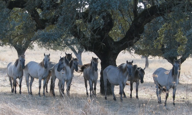 Enjoying the shade of a Cork Oak tree are a group of Sorraia mares from the Herdade de Azinhal stud in Portugal.